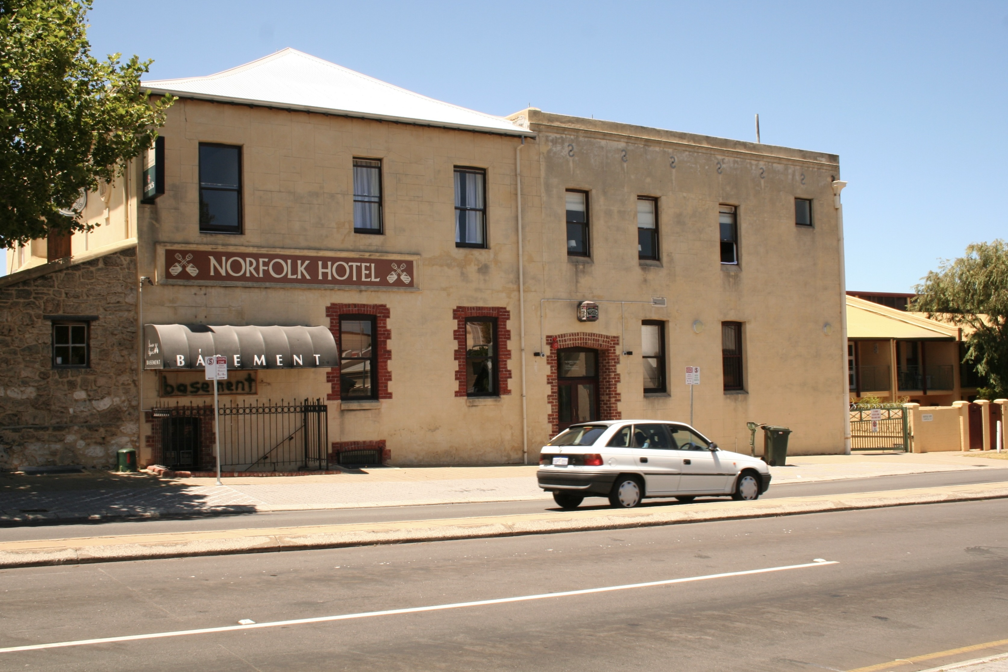 The Norfolk Hotel is located on the corner of South Terrace and Norfolk Street in Fremantle, Western Australia. The stone built hotel was originally constructed before the 1893 gold rush in 1877 for George Alfred Davies[1] a vintner and local councillor. - attrib wikipedia